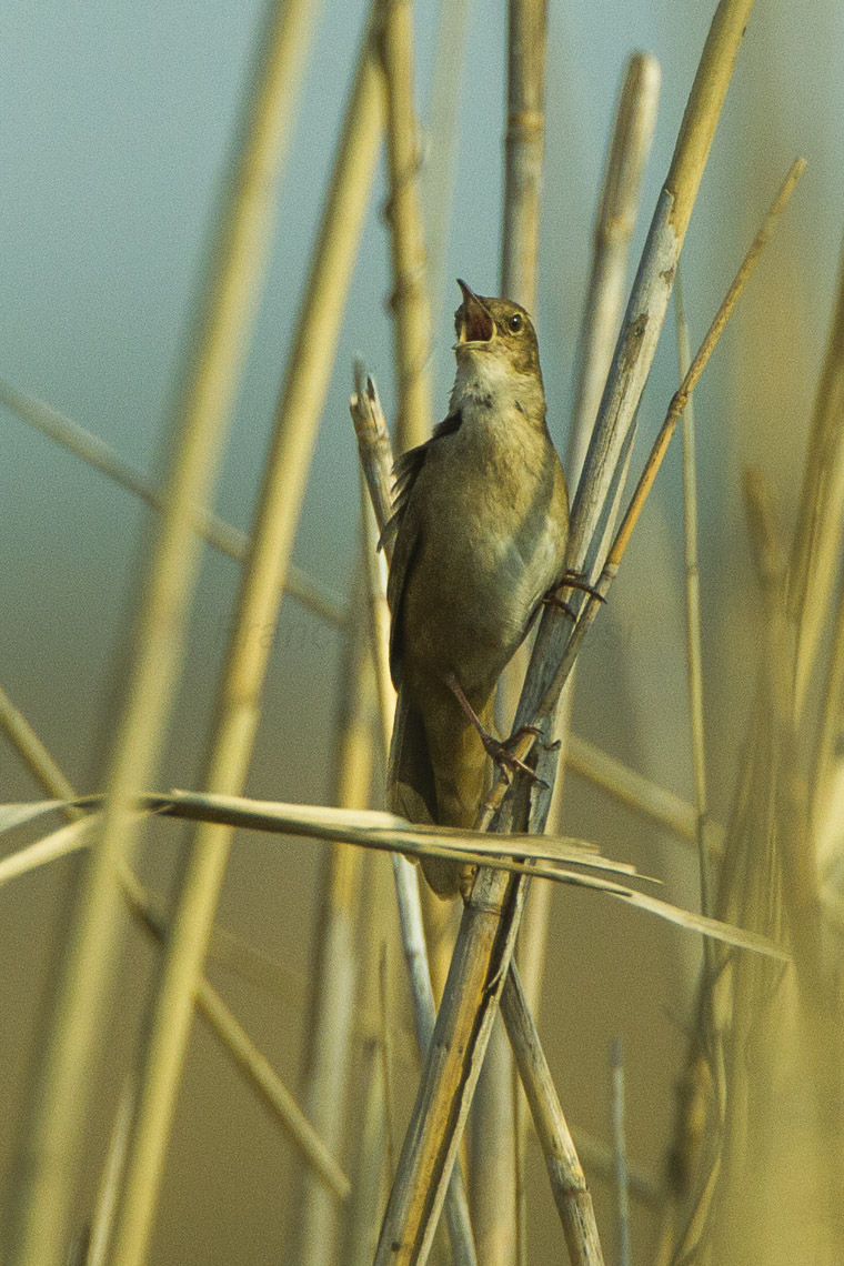 Savi's Warbler - Hungary_CS4E3590